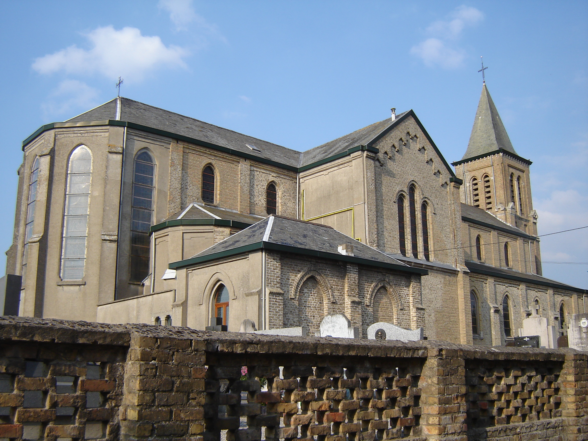 Church of Saint Vincent in Ghyvelde. Ghyvelde, Nord, Nord-Pas-de-Calais, France